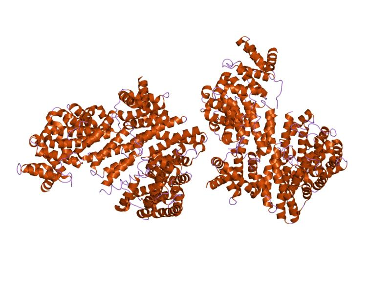 Cartoon representation of the molecular structure of protein registered with 1z3h code.